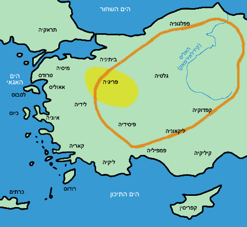 Map showing the traditional region of Phrygia and the manimum expansion of Phrygian kingdom in French. Adaptated from Image:Turkey ancient region map phrygia.jpg.